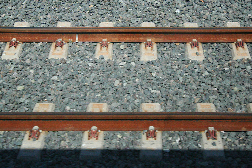 The gravel bed on the LGV Est high-speed railway line